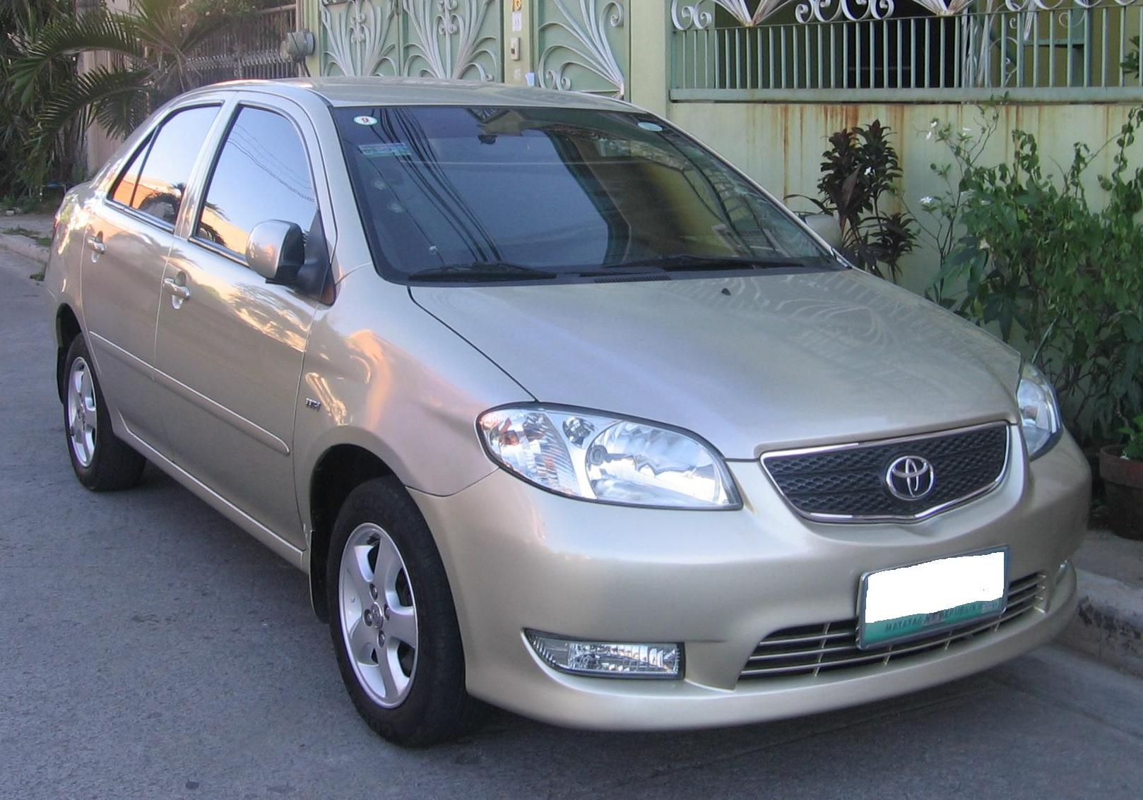 2003-2005 Toyota Vios photographed in Cainta Rizal